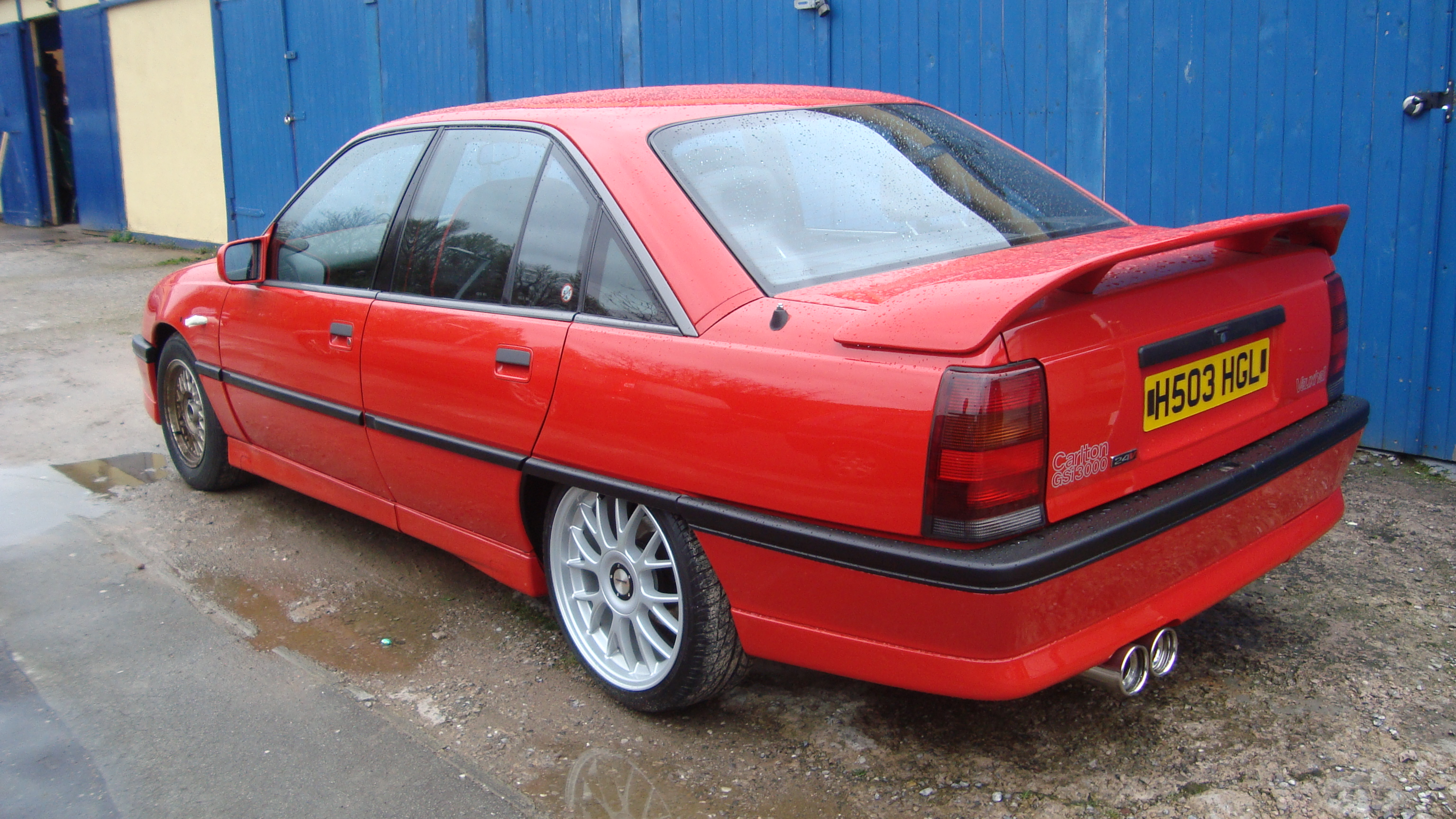 not its best side due to the spare wheel on the front but I was unable to get a shot of the back from the other side